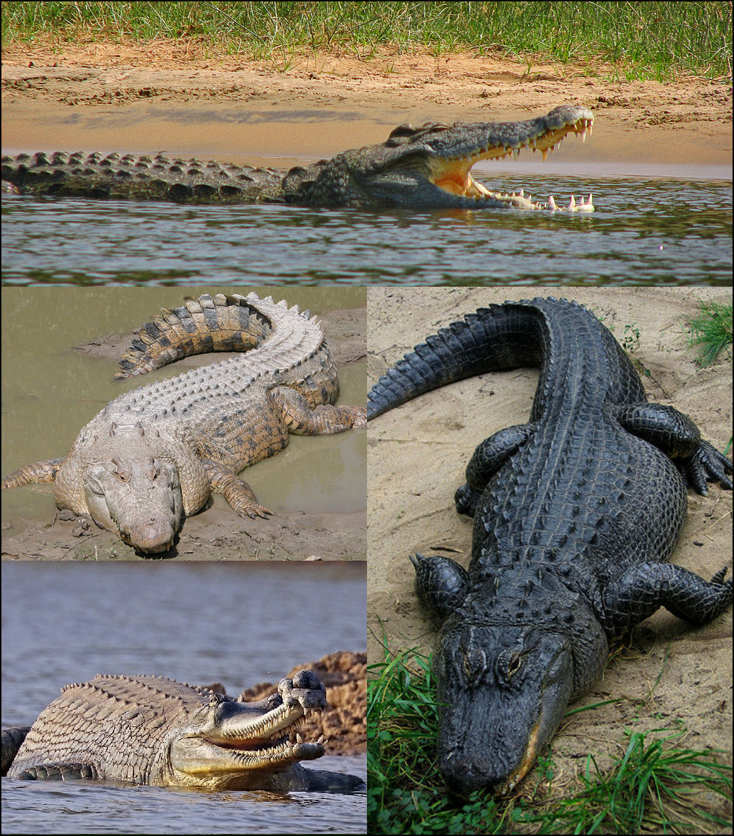 Nile crocodile (Crocodylus niloticus), (very top) Saltwater crocodile (Crocodylus porosus), (top left) American alligator (Alligator mississippiensis) (right) and Indian gharial (Gavialis gangeticus) (bottom left)